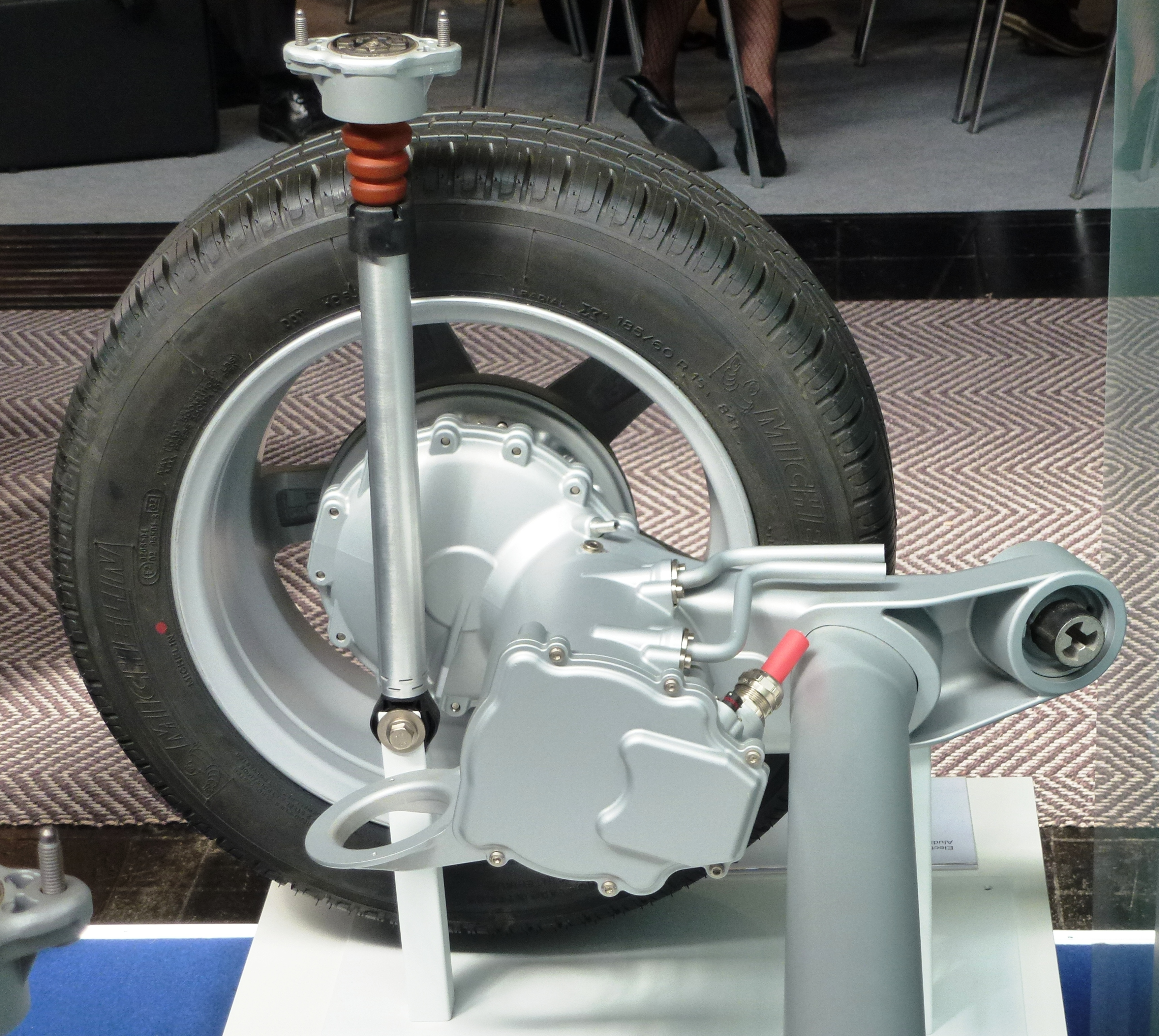 Electrical Drive Component from ZF Friedrichshafen